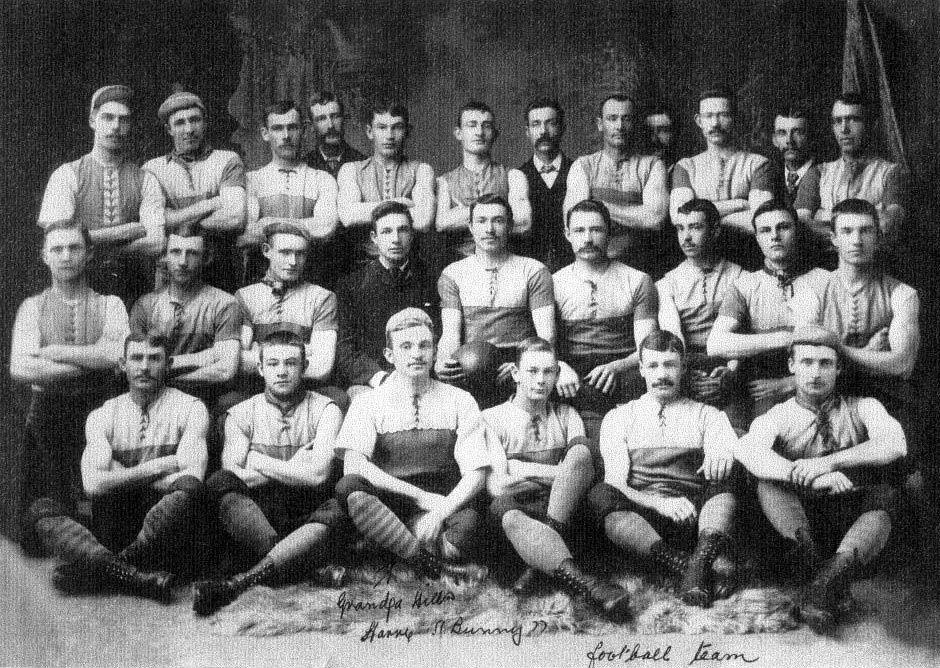 Port Adelaide Football Club 1890 (or 1893) premiership team. Other information This could possibly be the 1893 photo not 1890.